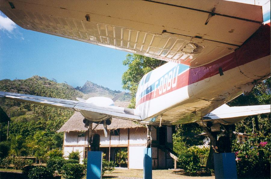 In the city of Atuona, Hiva Oa, French Polynesia, the small plane used by Jacques Brel in front of the maison du jouir built by Paul Gauguin